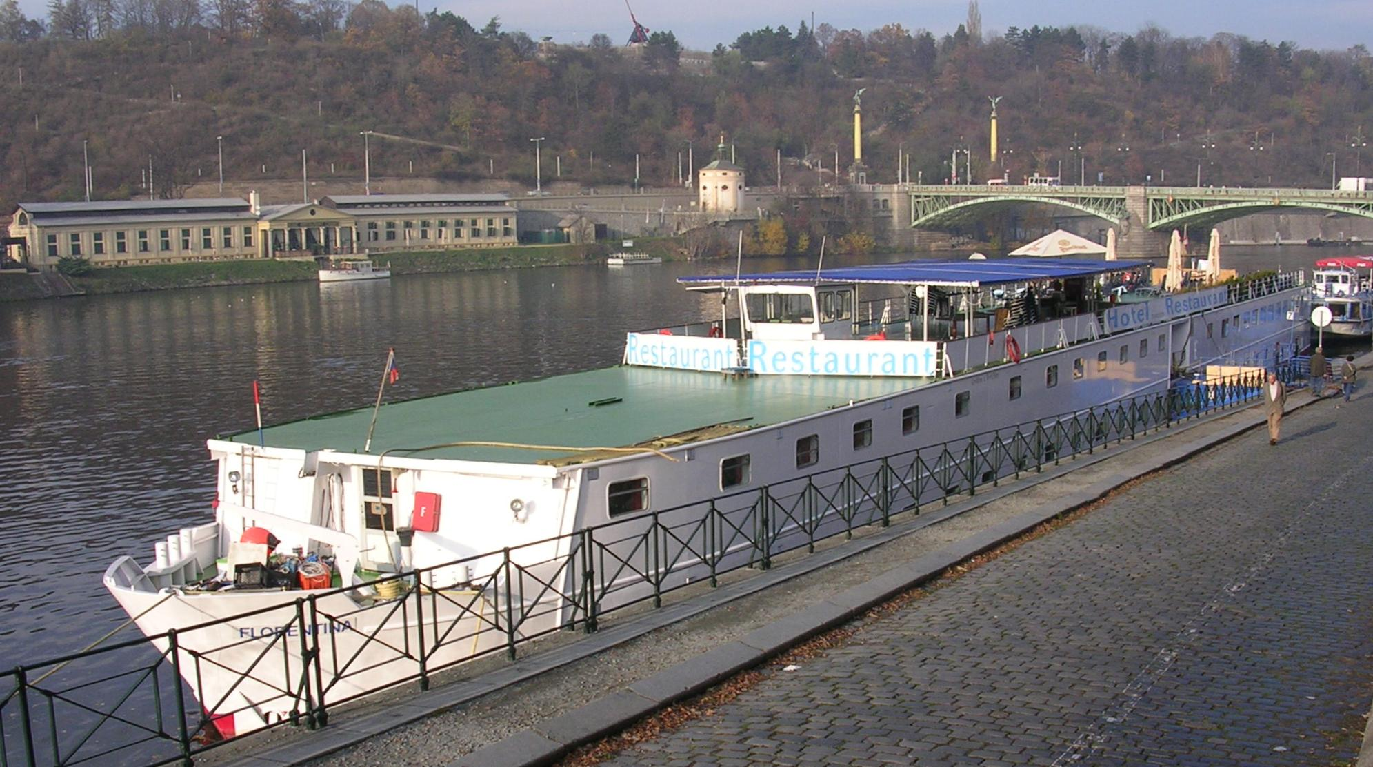 Prague, Florentina Ship.